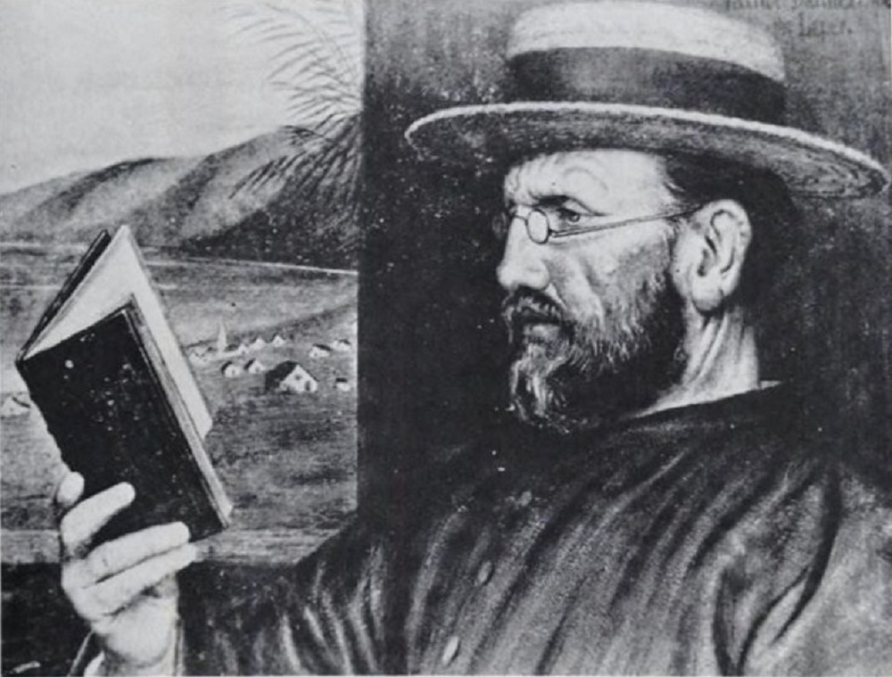 Damien in December 1888, painted by Edward Clifford.